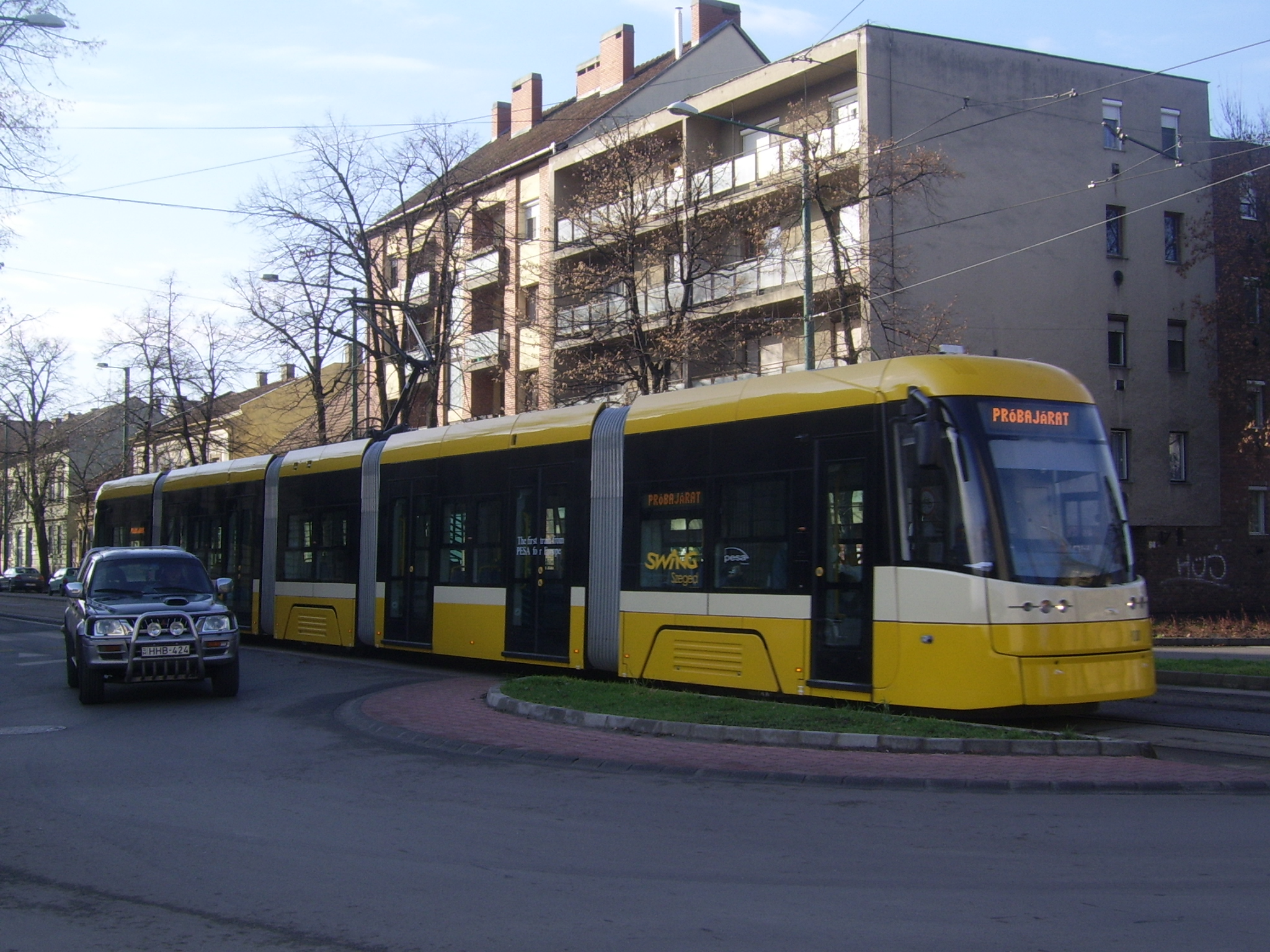 Trial tramcar PESA 120Nb on the Alsóváros section of the tram line 1 in Szeged.